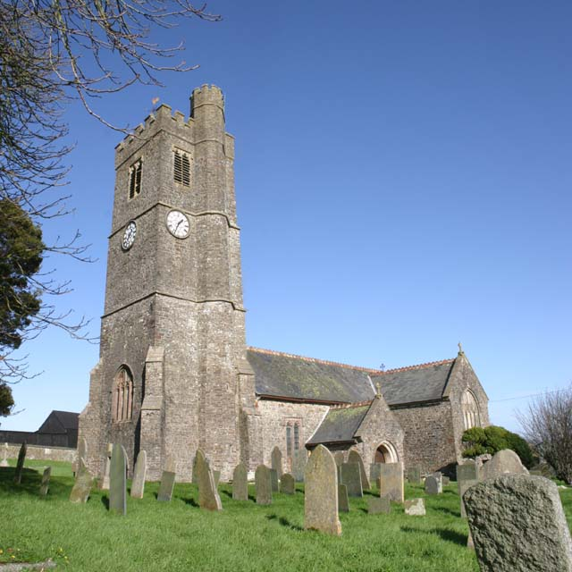 St Mary's Church, Atherington St Mary's is easily recognised from a distance by the turret on its tower.